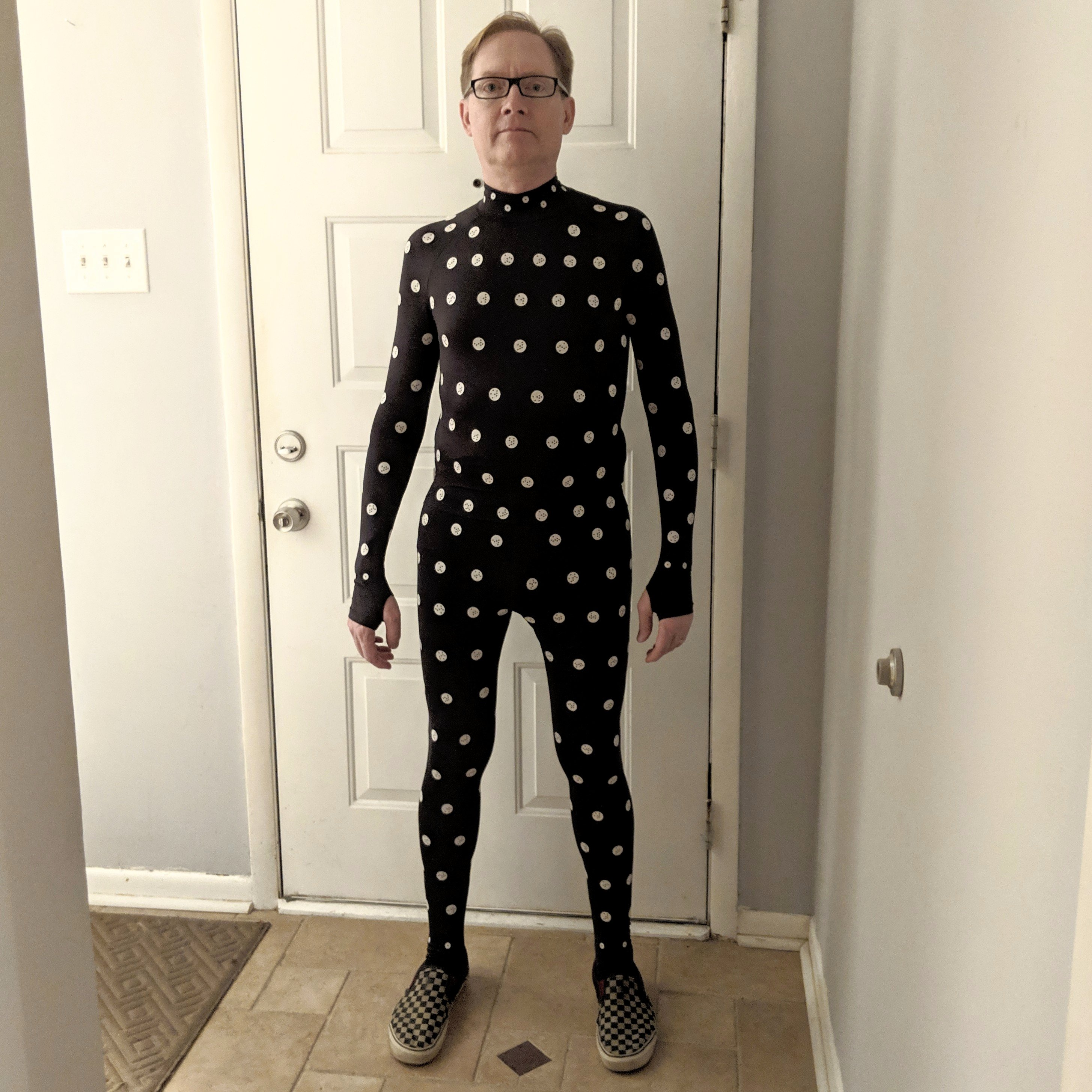 First try of the ZOZO 3D capture suit. The numbers look pretty close but it's very sensitive to the angle and lighting. Free jeans and t-shirt are on the way, so that will be the real test.